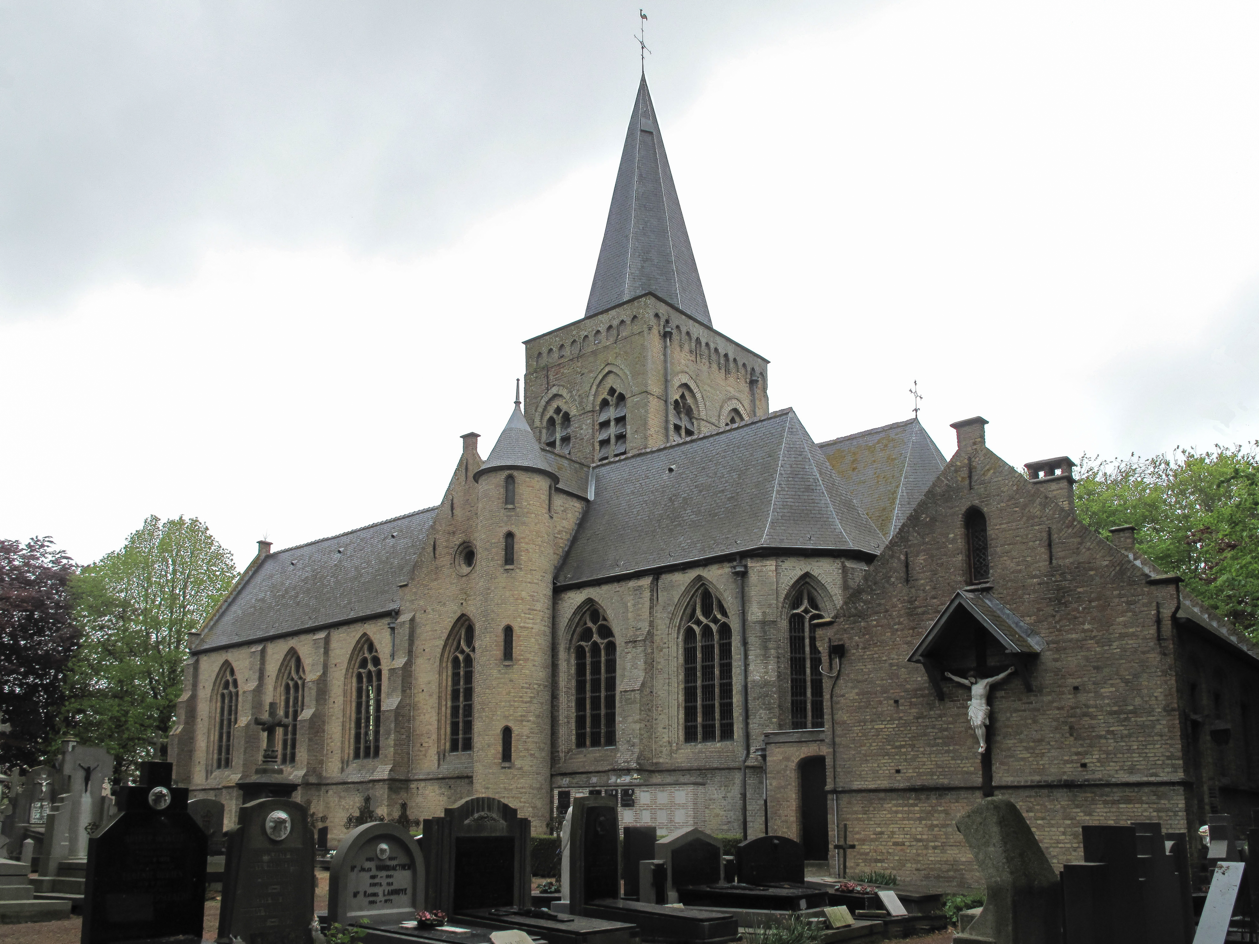 Gijverinkhove, church: parochiekerk Sint Petrus